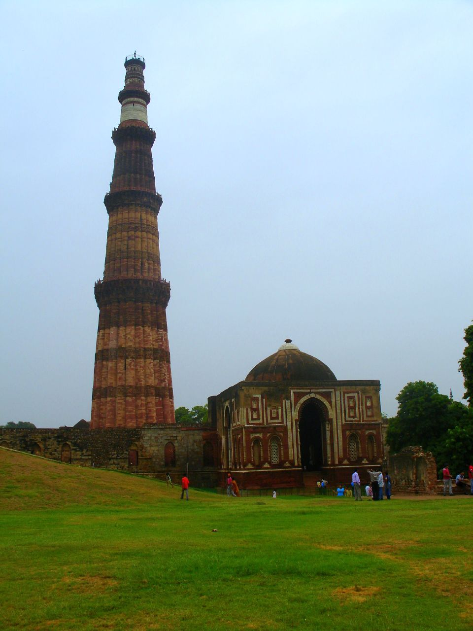 Qutb Minar and Alai Darwaza (Delhi, India)